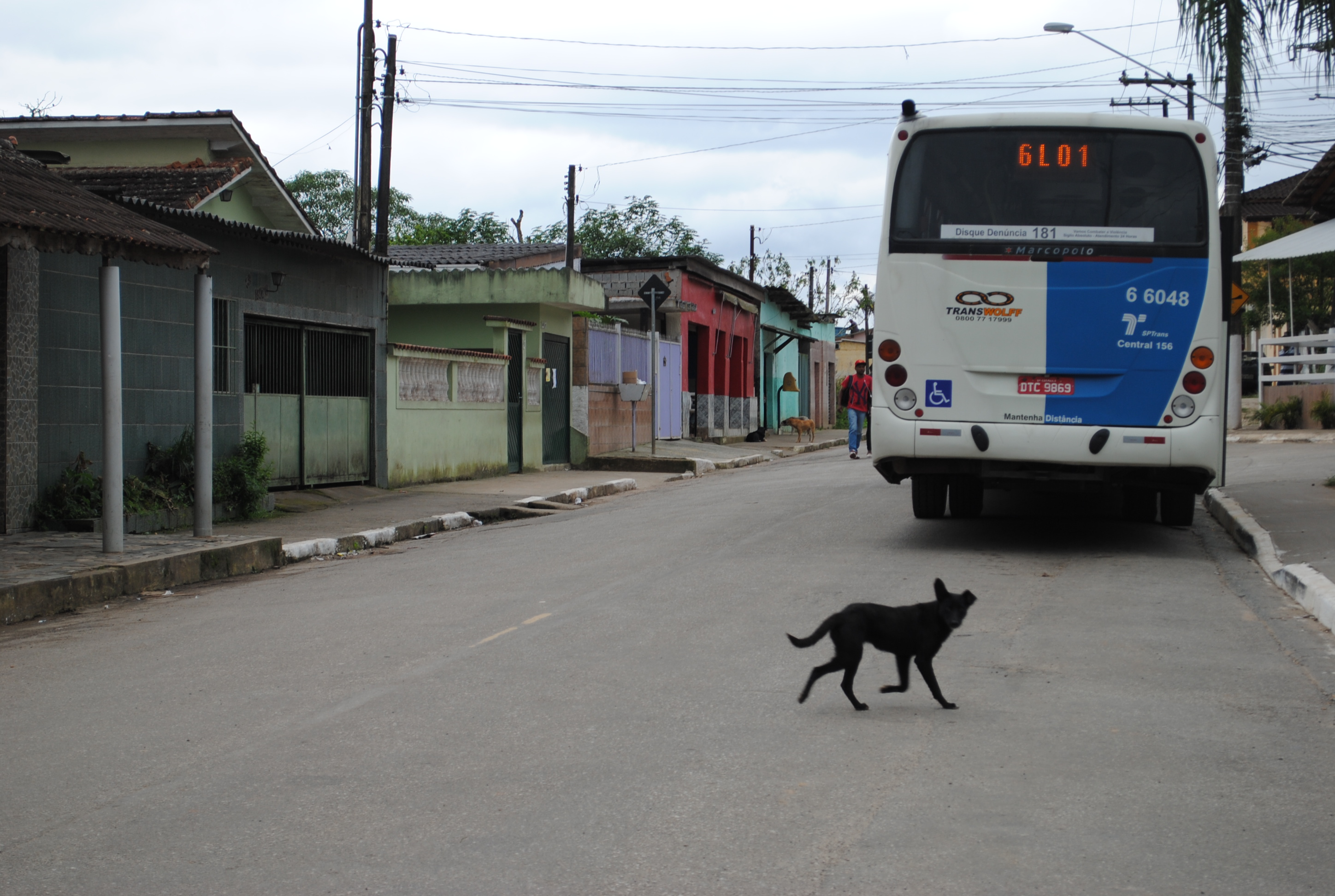 Marsilac District - center Centro - Distrito de Marsilac